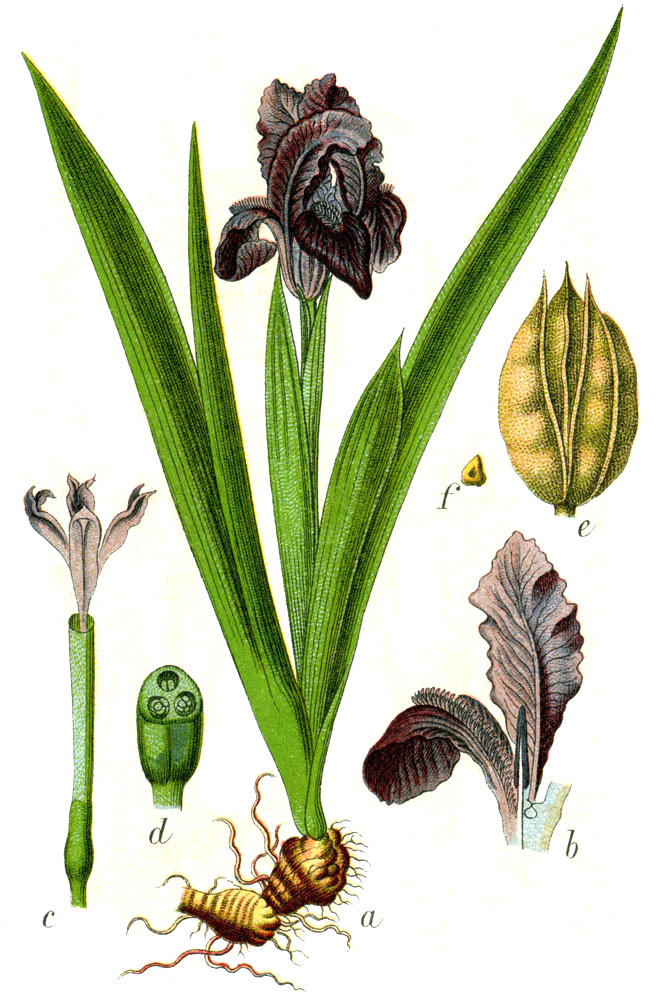 Iris pumila L. Original Caption Niedrige Schwertlilie, Iris pumila